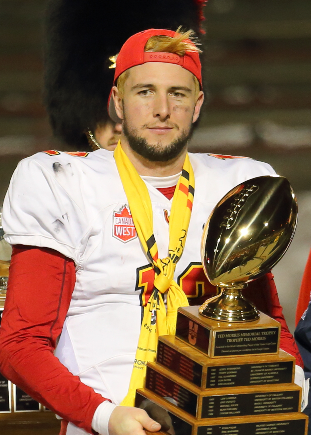 2019 Vanier Cup, 55th edition, at the TELUS-Université Laval stadium. Adam Sinagra winner of the Ted Morris Trophy.